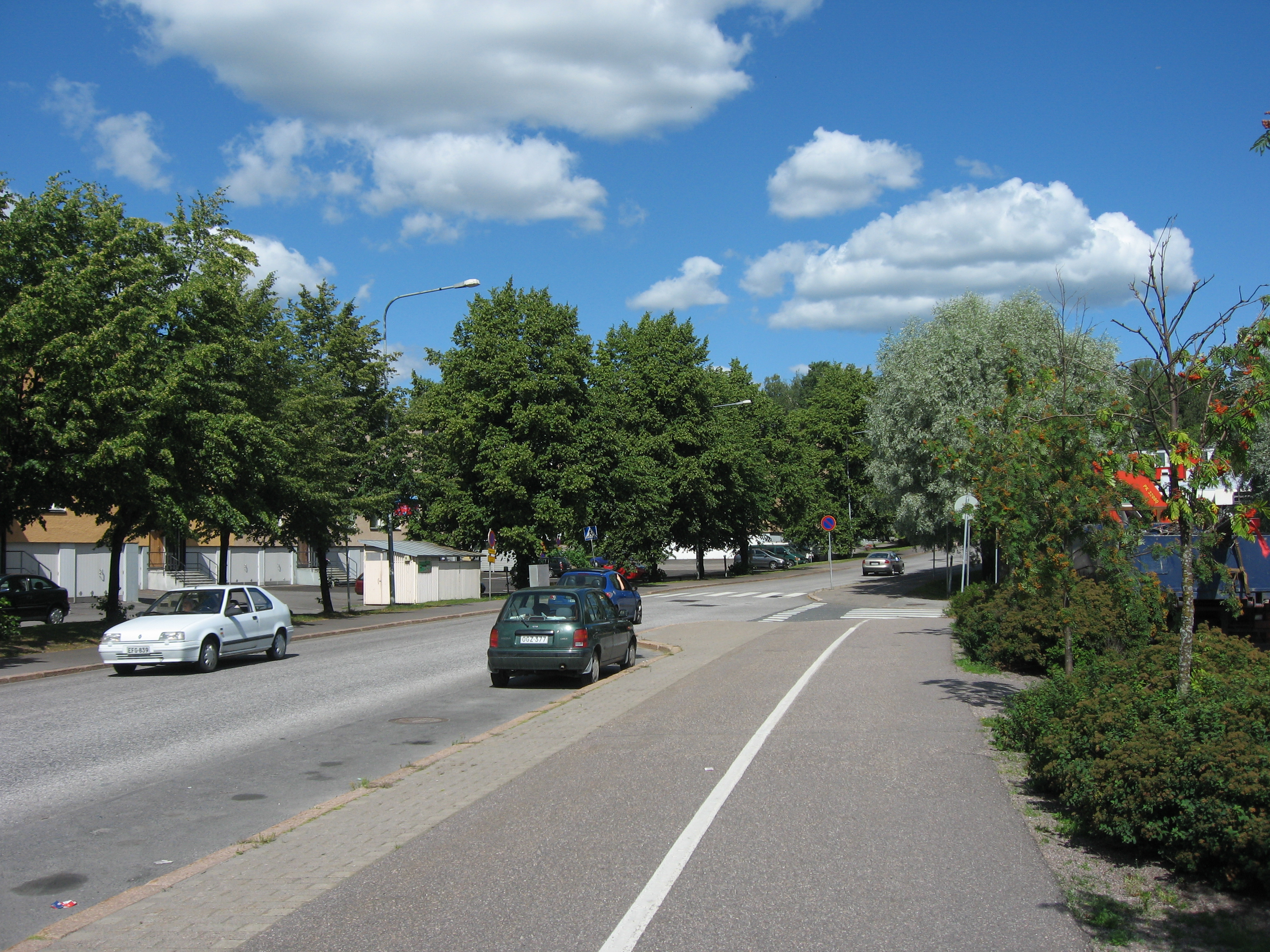 Street in Roihuvuori called Roihuvuorentie